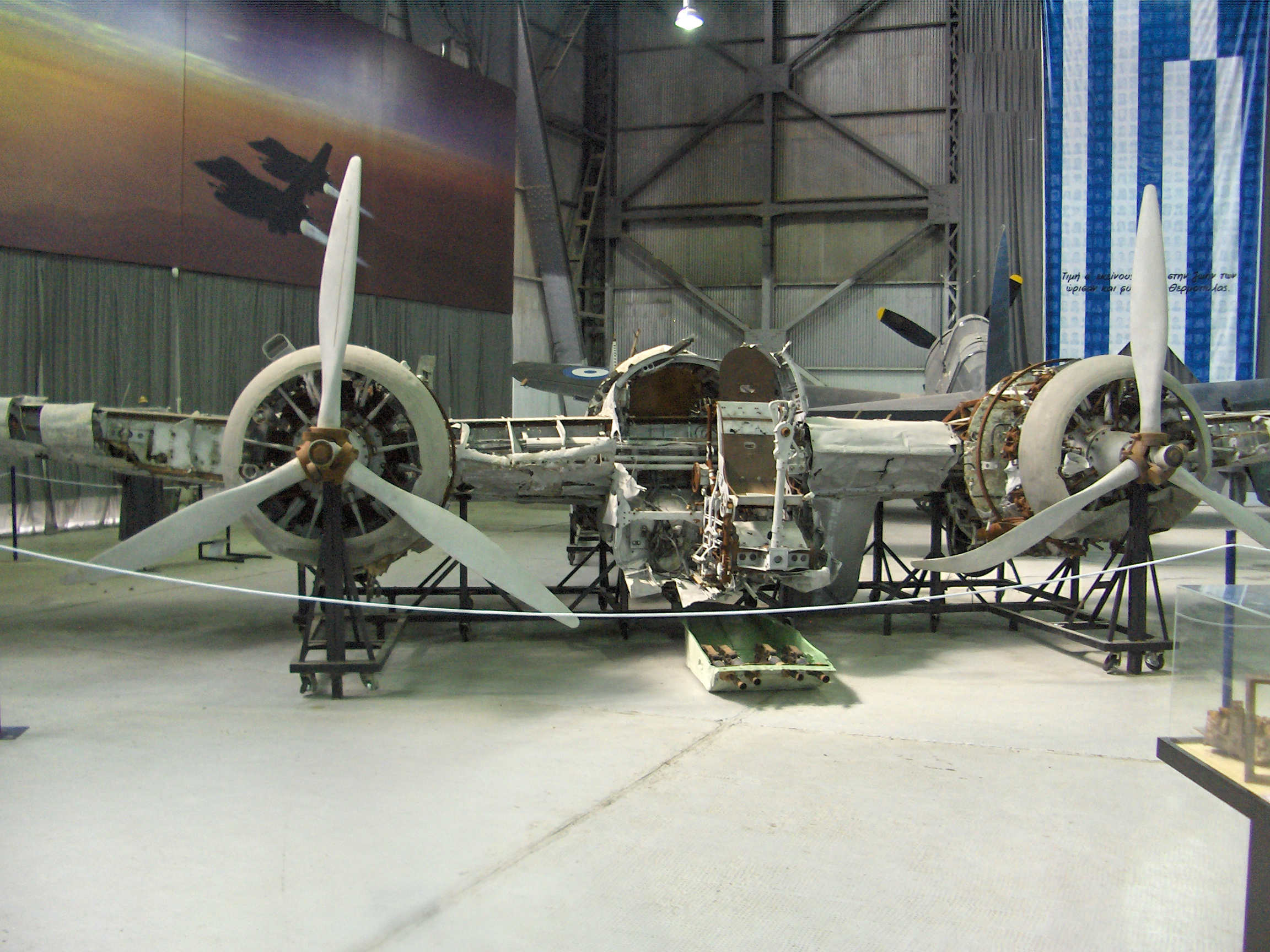 Exhibit at the Hellenic Air Force Museum at Dekelia (Tatoi), Athens, Greece. Bristol Blenheim Mk IV F